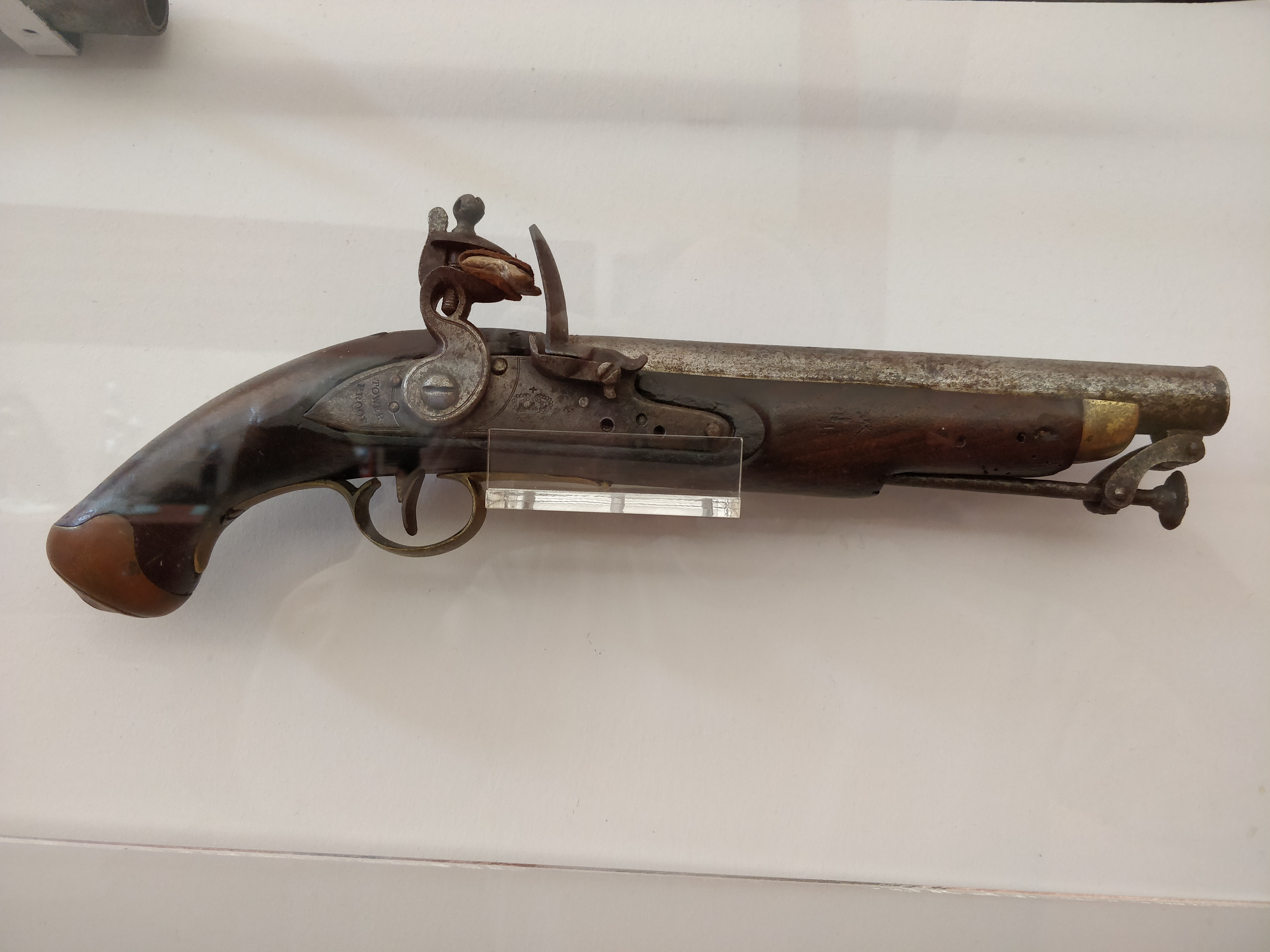 "New Land" pistol used by British troops in the Peninsular War; on display at Leonel Trindade Museum, Torres Vedras, Portugal